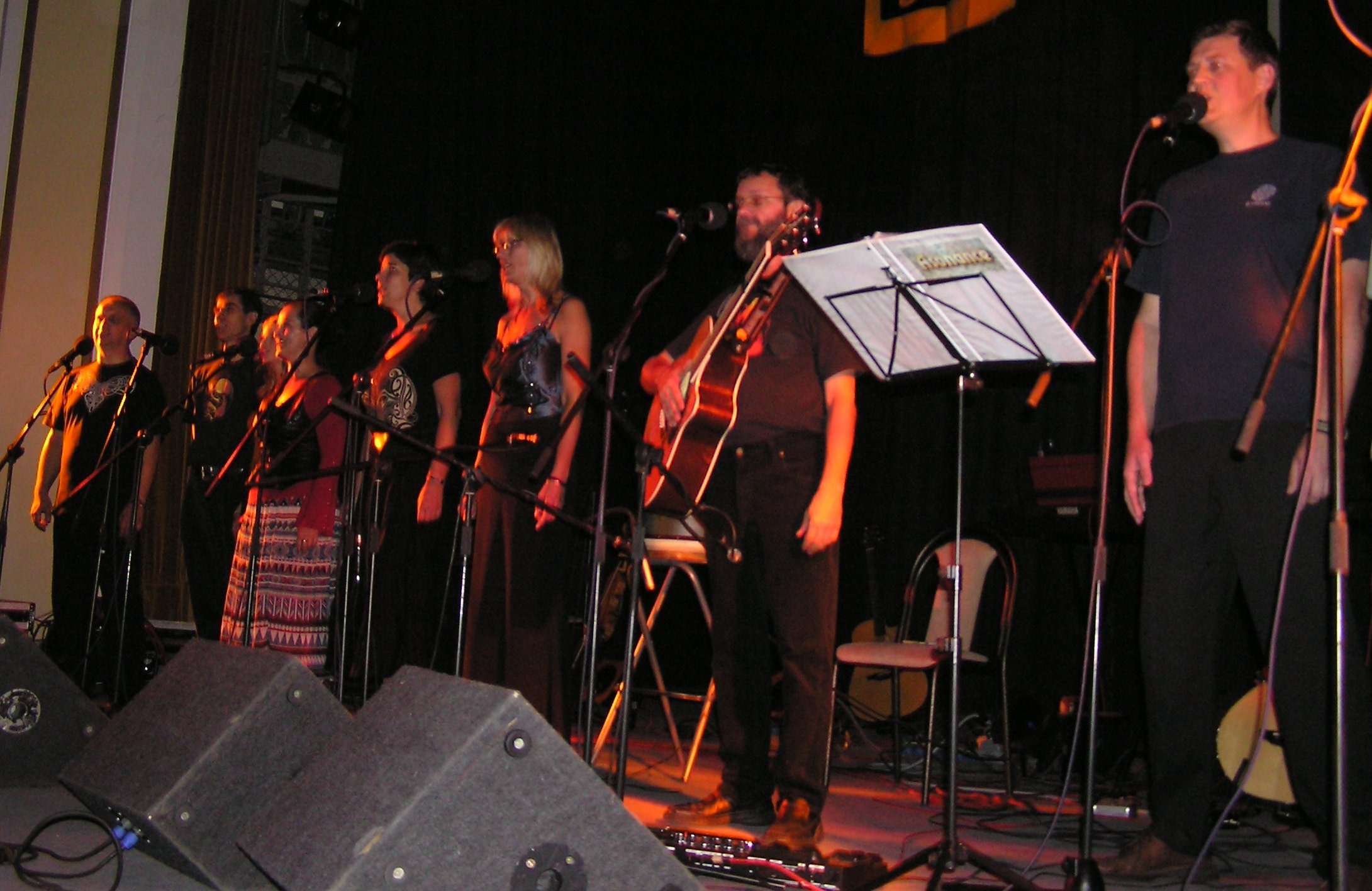 Asonance, Czech music group. Photo taken on 2006-10-15, their 30 years anniversary.